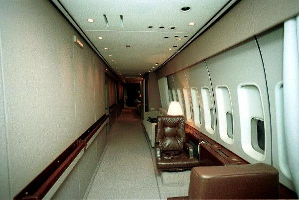 The corridor streching the port (left) side of the aircraft's second story. The two chairs are a guard post for Secret Service agents.